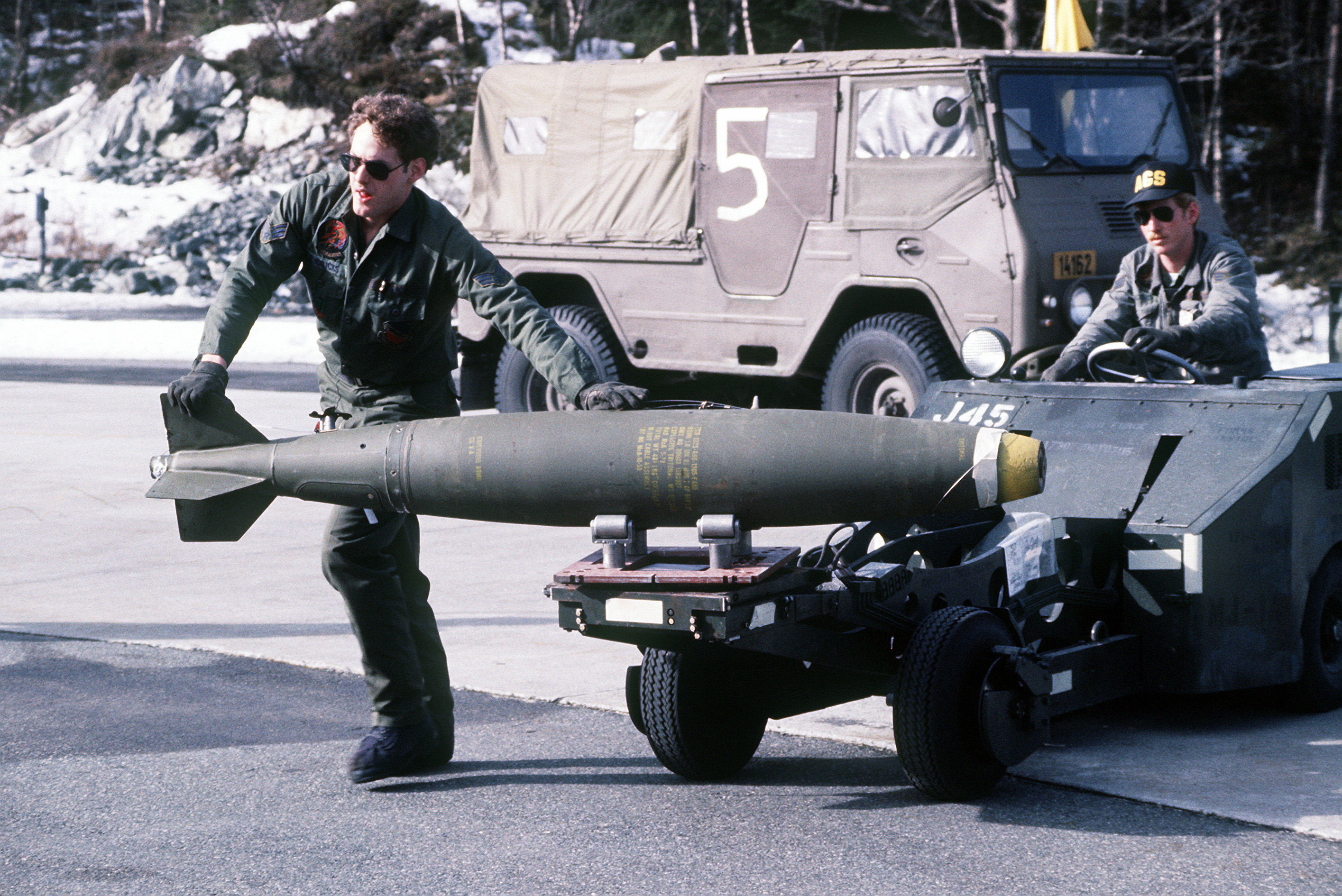 Sgt. Jim Hendricks steadies an? Mark 82 bomb being carried by a bomb loader to an F-16 Fighting Falcon aircraft for loading.